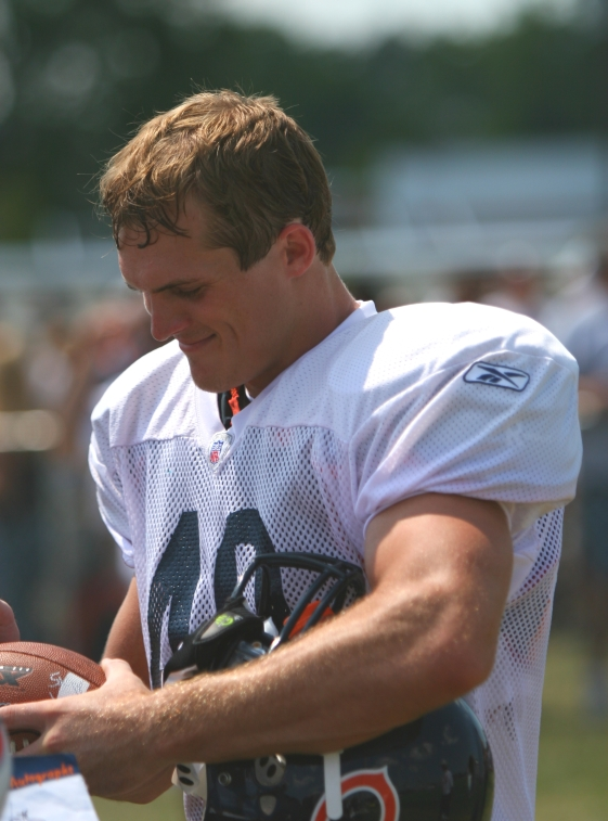 Andrew Shanle at the Chicago Bears 2007 Training Camp.